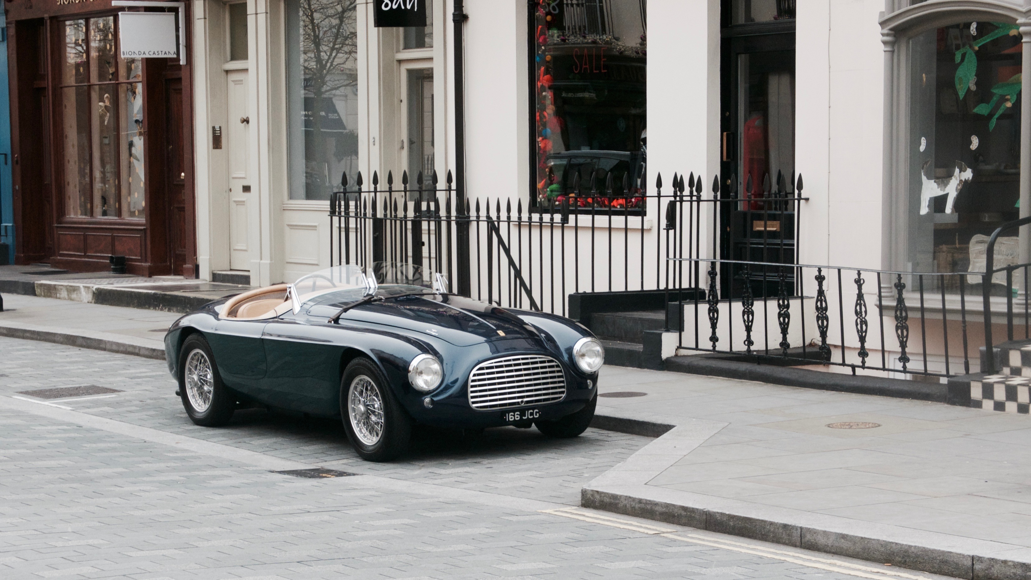 1950 Ferrari 166 MM Touring Barchetta s/n 0064M. Parked at ca. 71 Elizabeth Street in Victoria, London